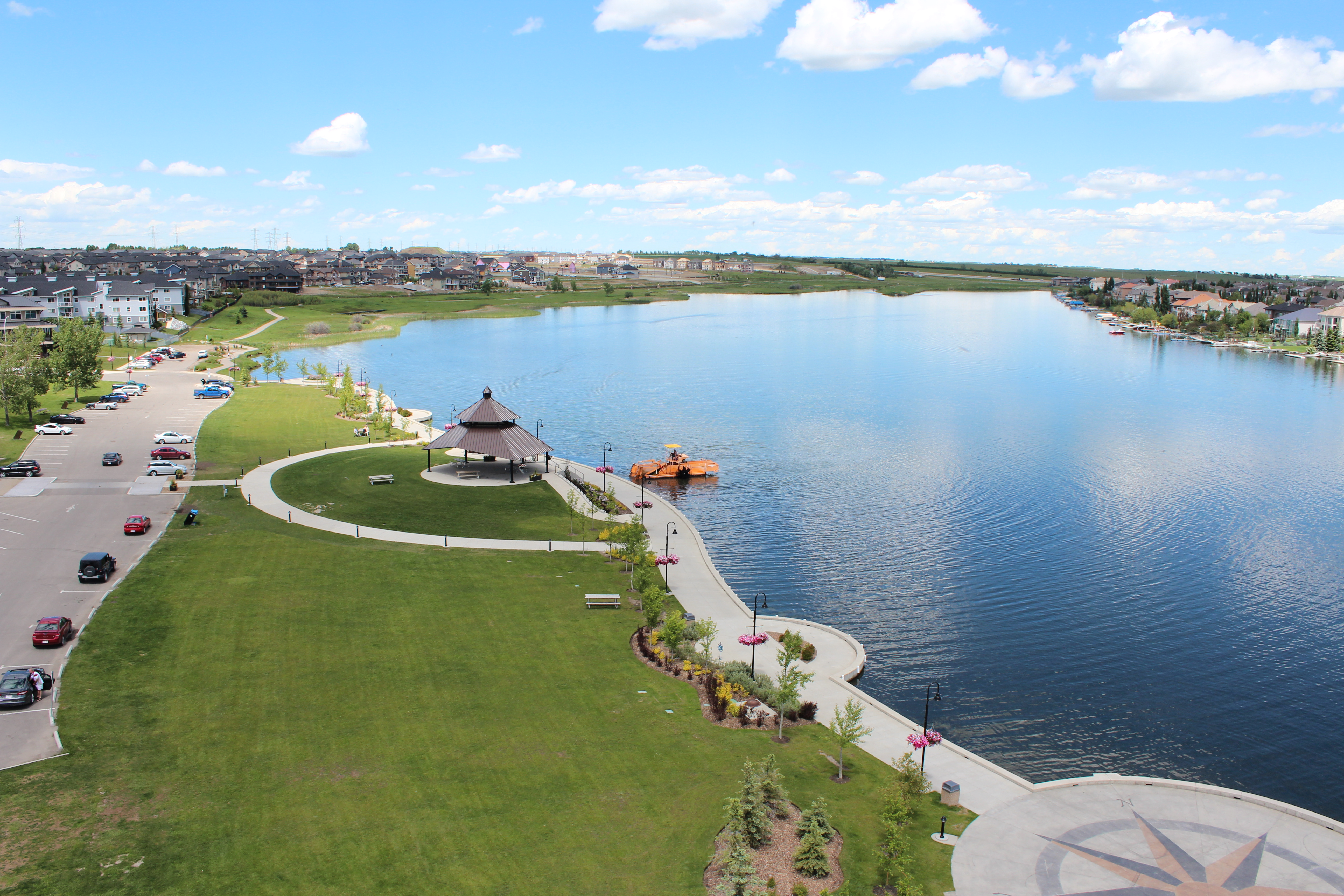 Aerial view of John Peake Park, Chestermere, Alberta.